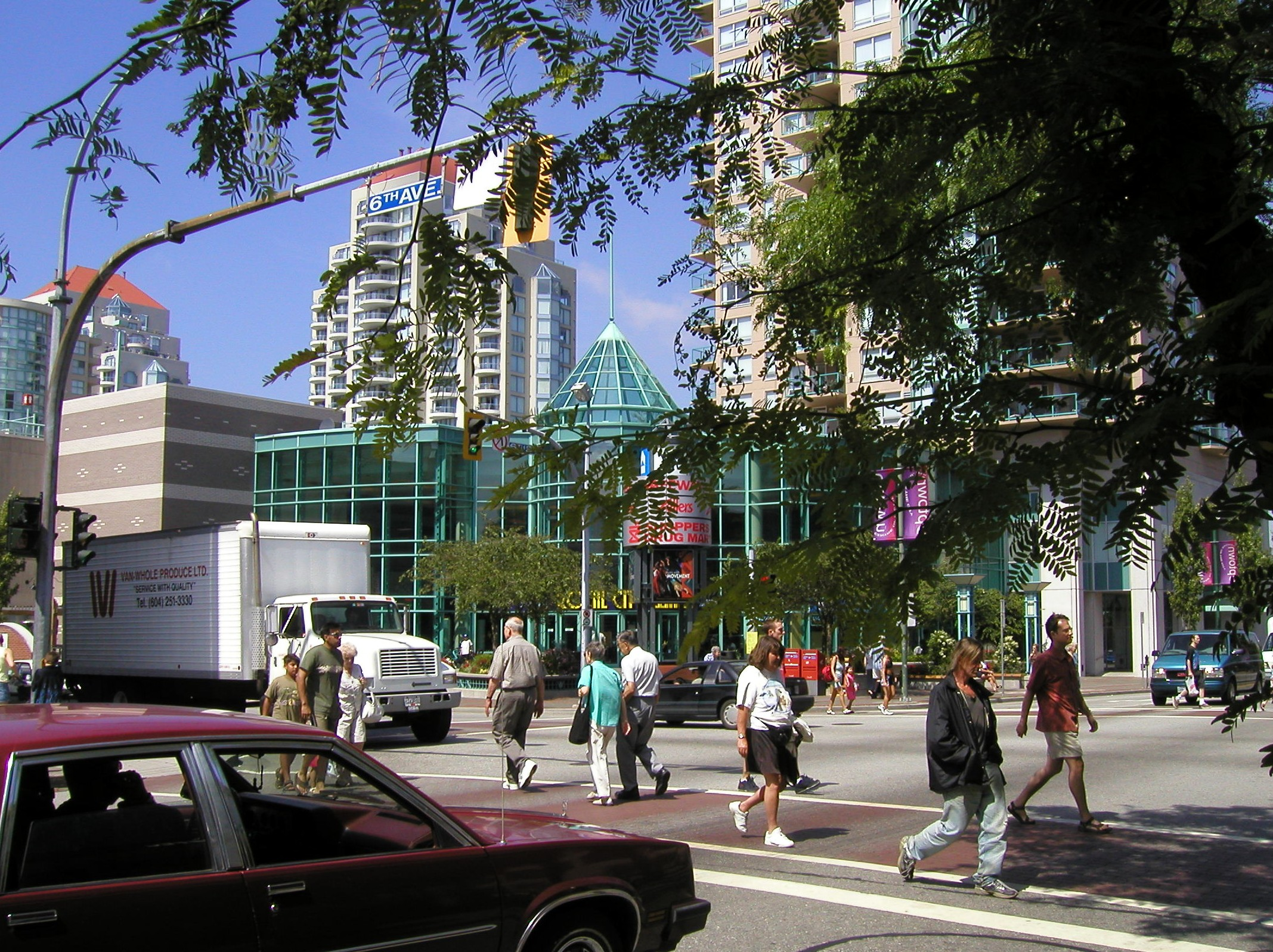 Photograph of uptown New Westminster, BC Canada. Taken by Dennis S. Hurd in 2002